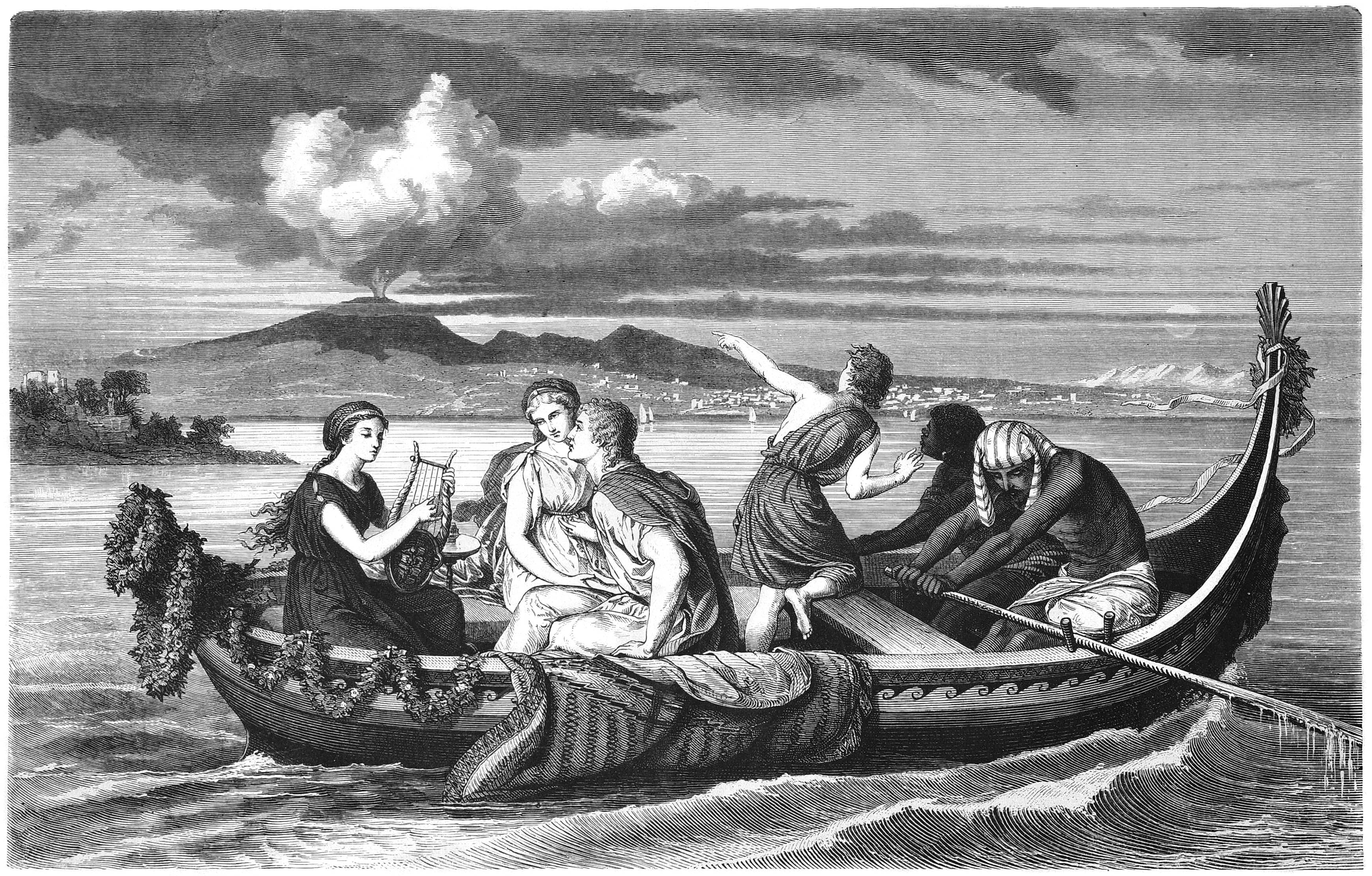 caption: "Aus den letzten Tagen von Pompeji.Nach einem Oelgemälde R. Risse’s von ihm selbst auf Holz übertragen."